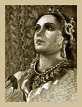 Fatima Begum (1905-1983), a silent era actress in Indian Cinema, (before 1936).